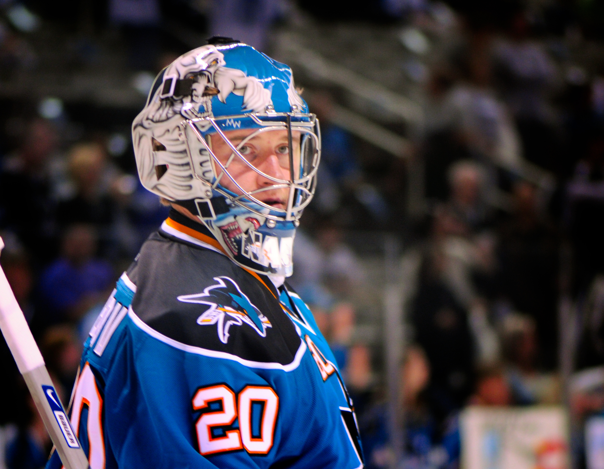 Evgeny Nabokov 2008